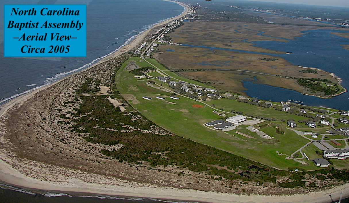 Cropped/annotated version of photo contained in the Caswell Beach Preservation Draft Plan (2005). Plan has no copyright protection per Chapter 132 of the NC Legislative Code